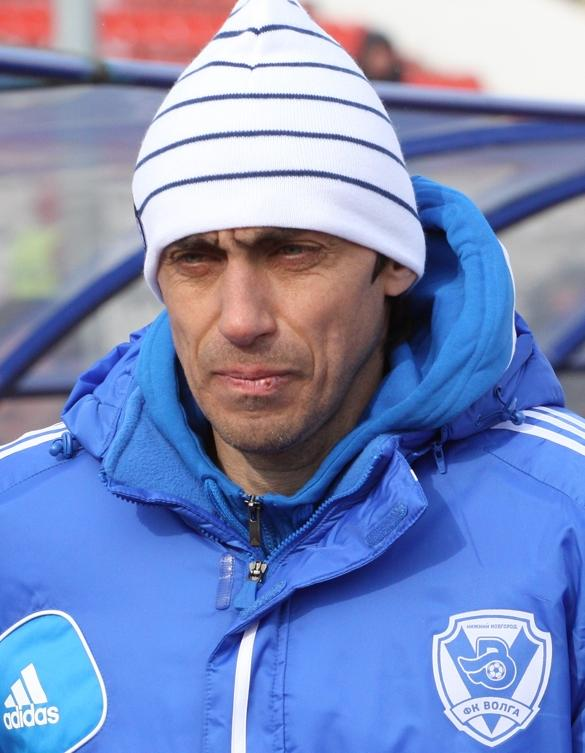 Yuri Kovtun working with FC Volga Nizhny Novgorod in 2013.